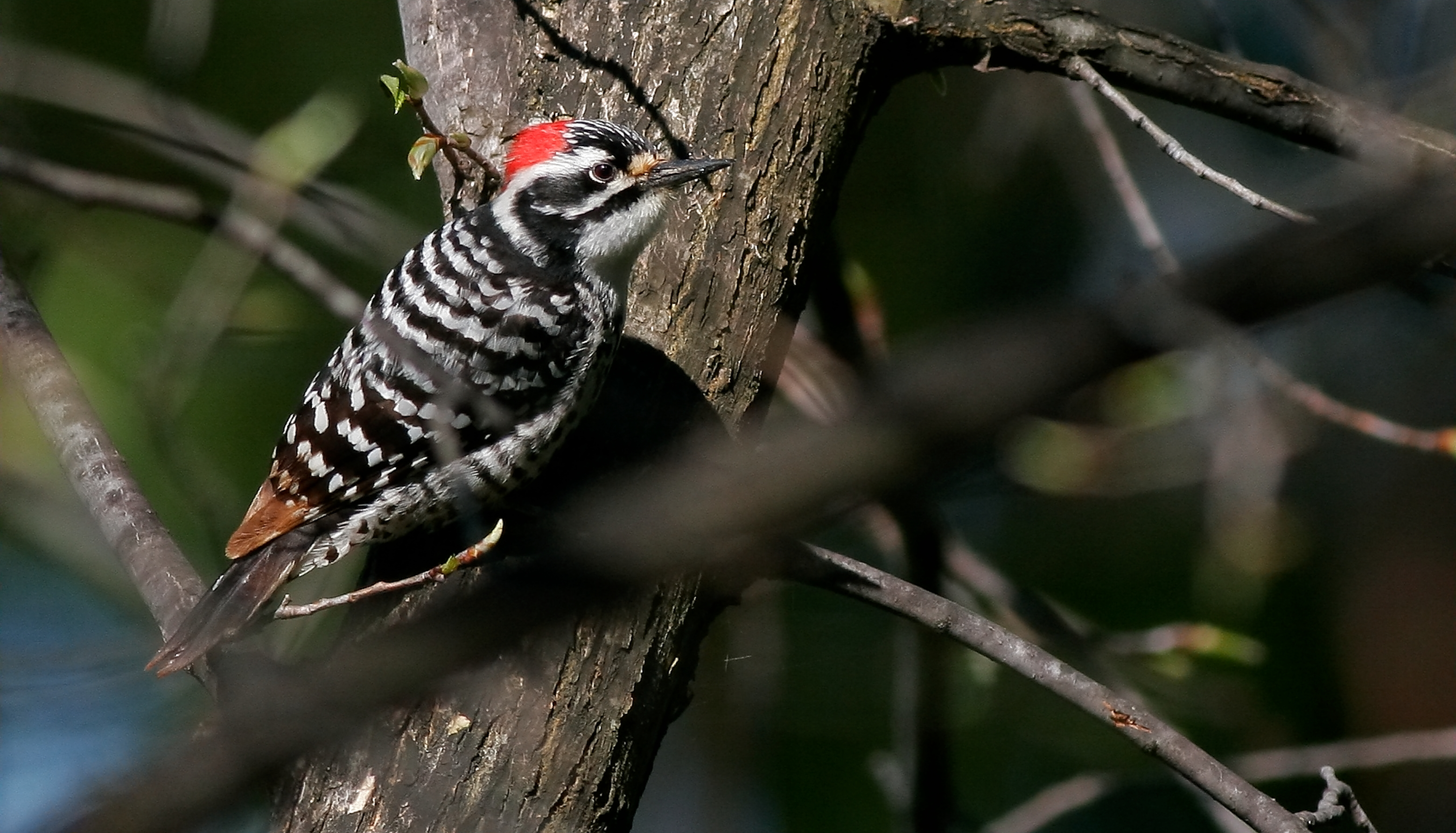 Nuttall's Woodpecker in Sacramento, California